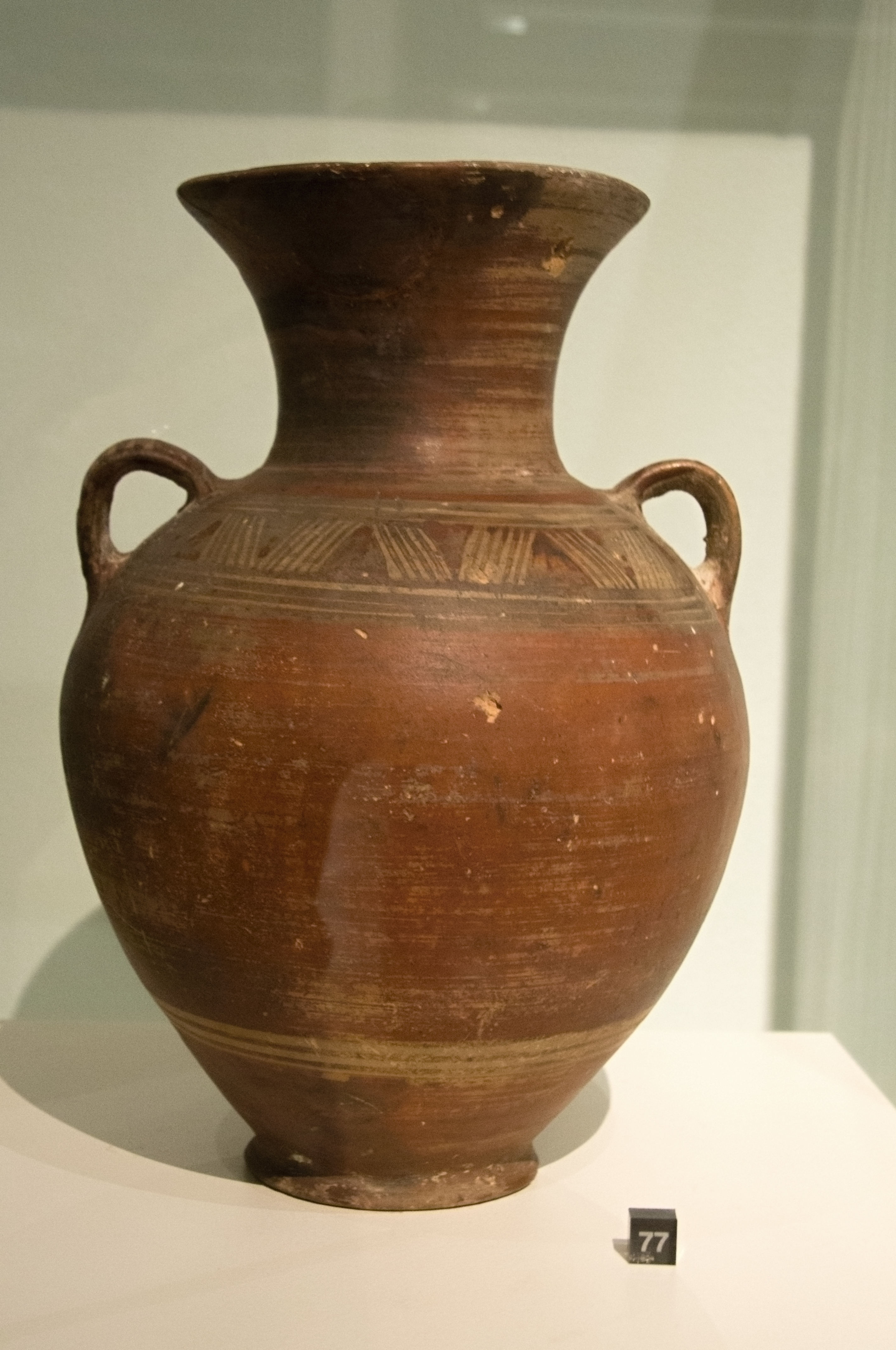 Shoulder handled amfora, Attic workshop, Early Geometric Period, 875 - 850 BC. NG Prague, Kinský Palace, ÚKA 60-5.